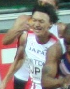 World Athletics Championships 2007 in Osaka - Final exchange during the men*s 4*100 metres relay final: Shinji Takahira